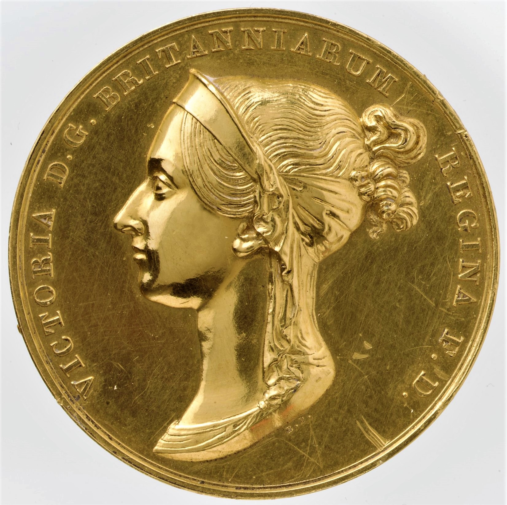 slightly enhanced, with the edges removed